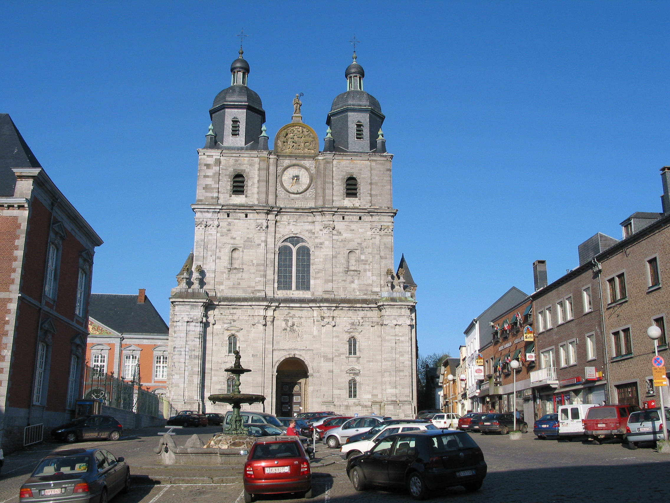 Saints Peter and Paul Basilica (16/18th centuries) and previous Abbey palace (1729-1731) of Saint-Hubert (Belgium).